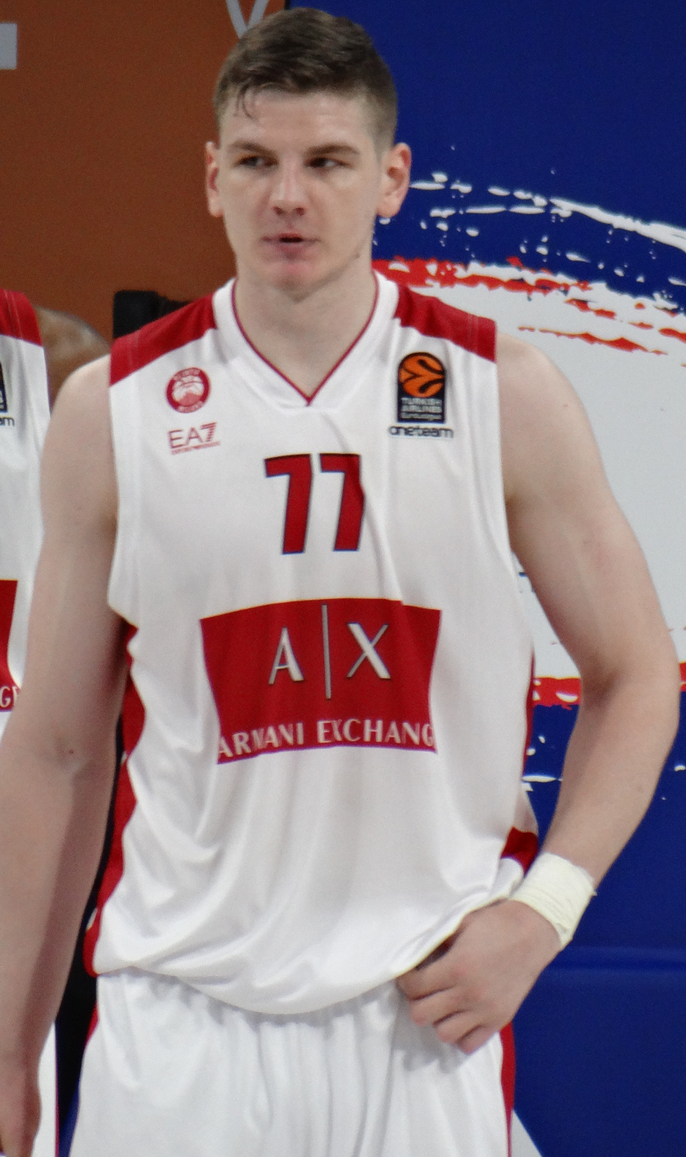 Artūras Gudaitis 77 AX Armani Exchange Olimpia Milan 20171130